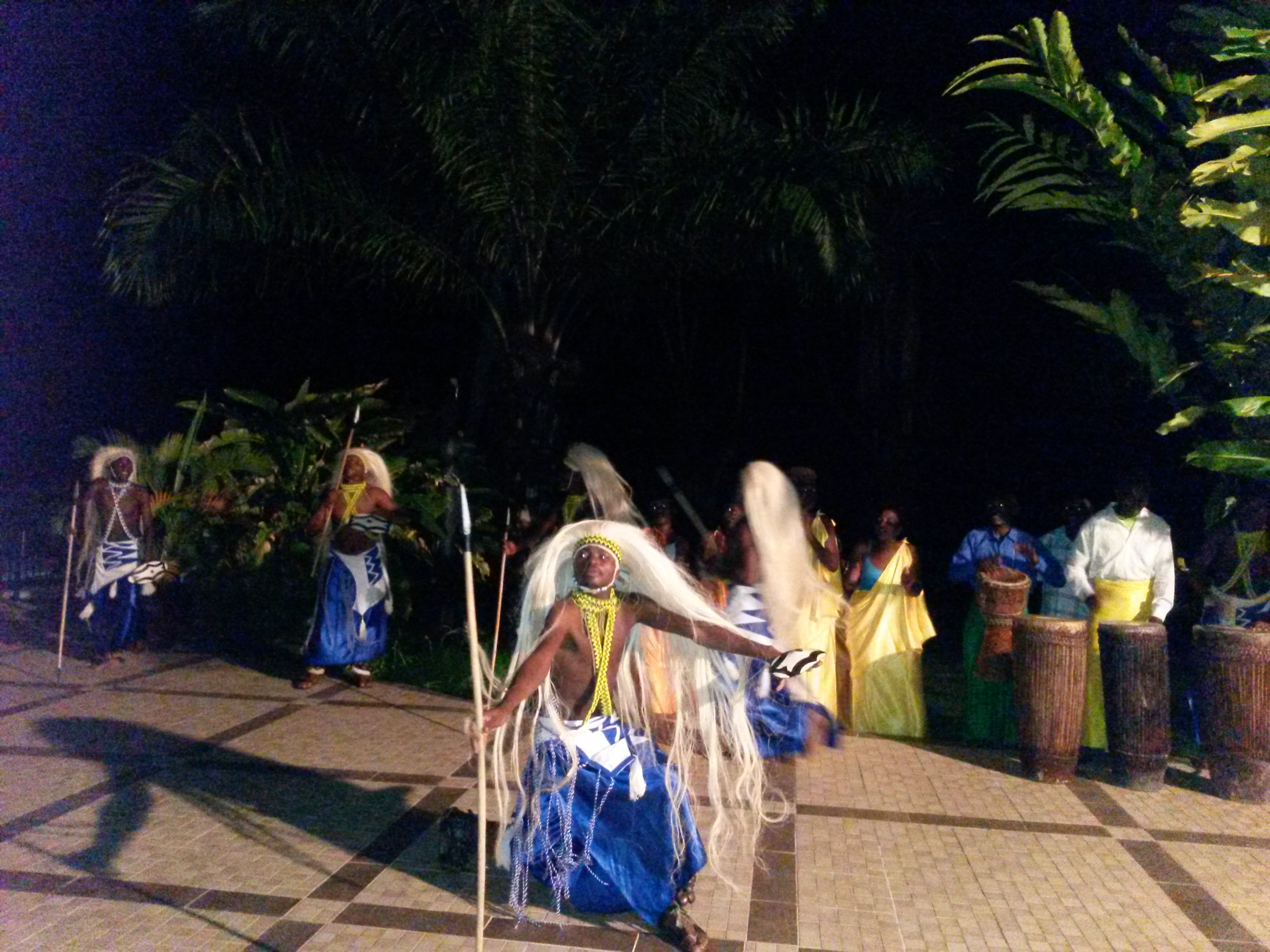 I captured this scene at the Serena Hotel at Lake Kivu This is an image of "African people at work" from Rwanda